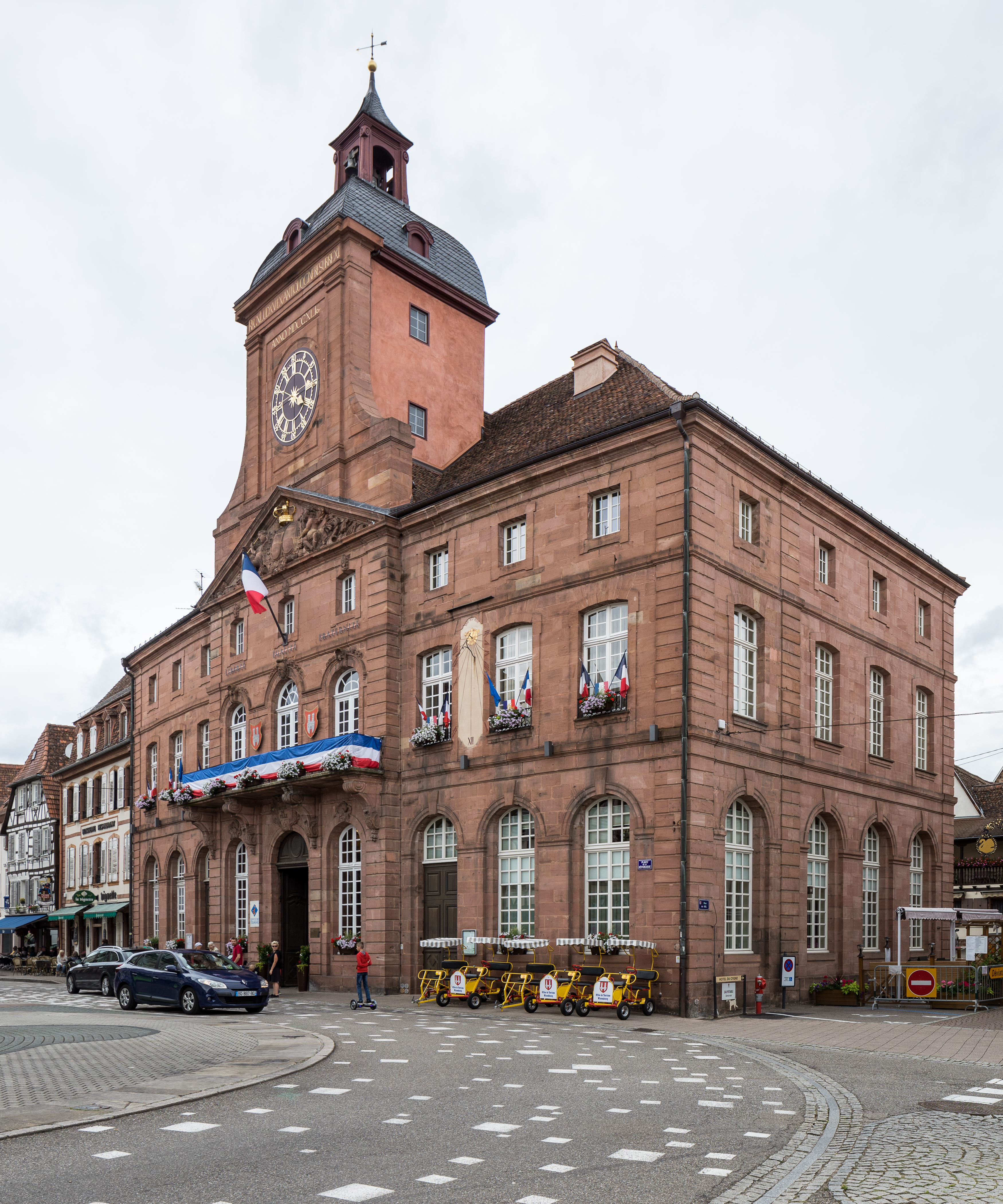 Town hall of Wissembourg, build 1741.